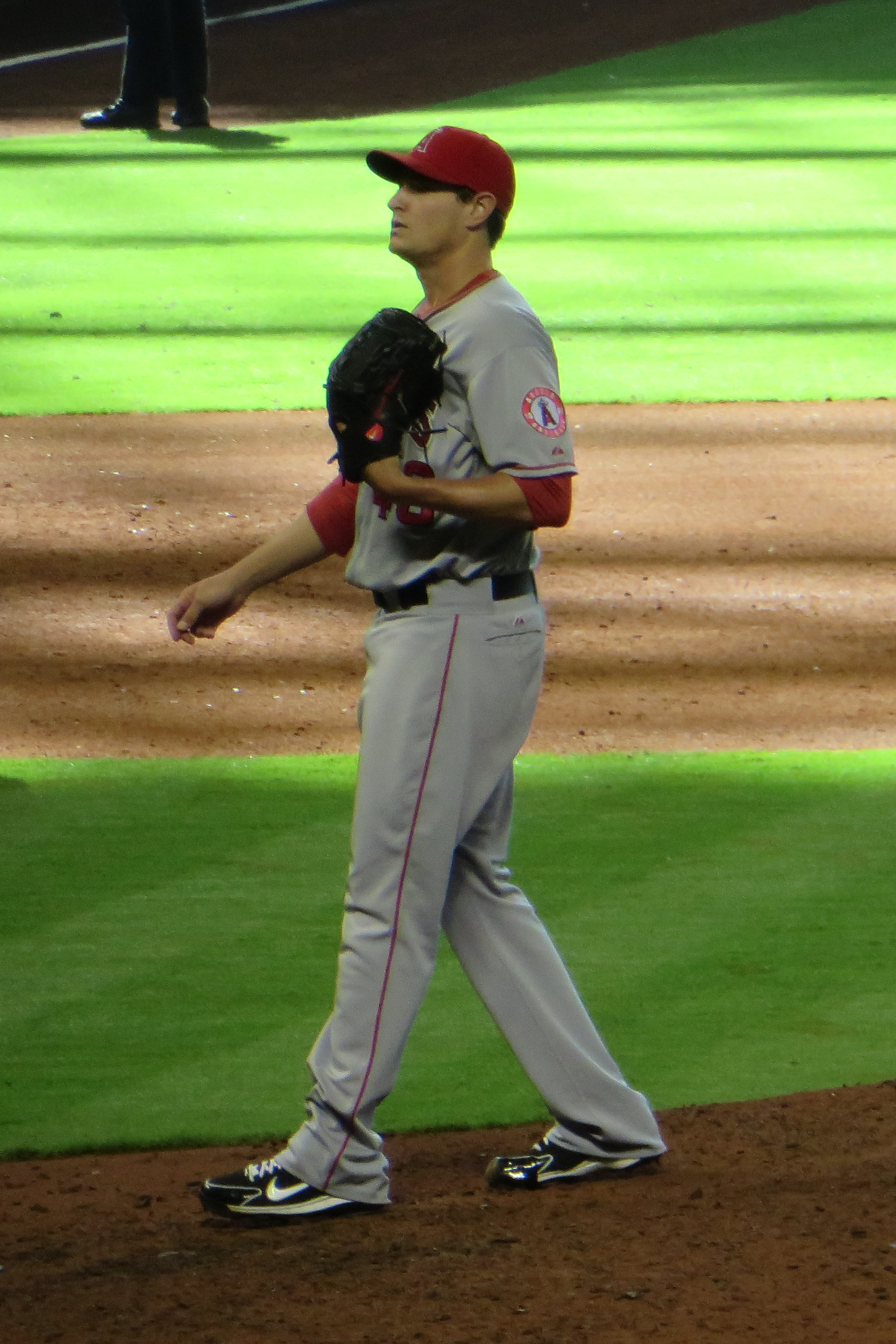 Pitcher Garrett Richards of the Los Angeles Angels of Anaheim, Minute Maid Park, June 29, 2013.